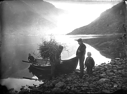 Father and children at a fjord in Norway, near Odda